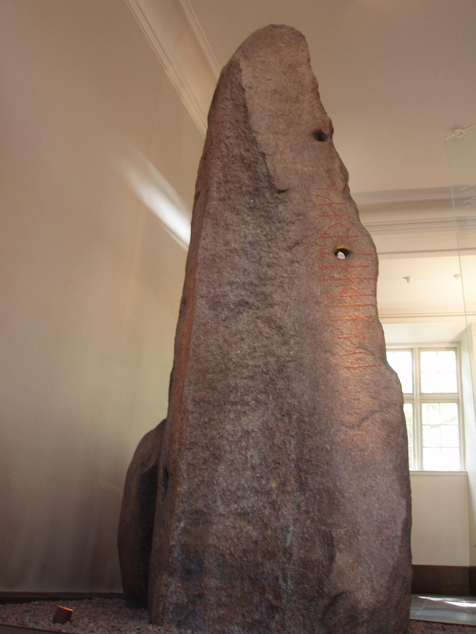 One of the sides of the Tryggevælde runestone, now located in the National Museum of Copenhagen.